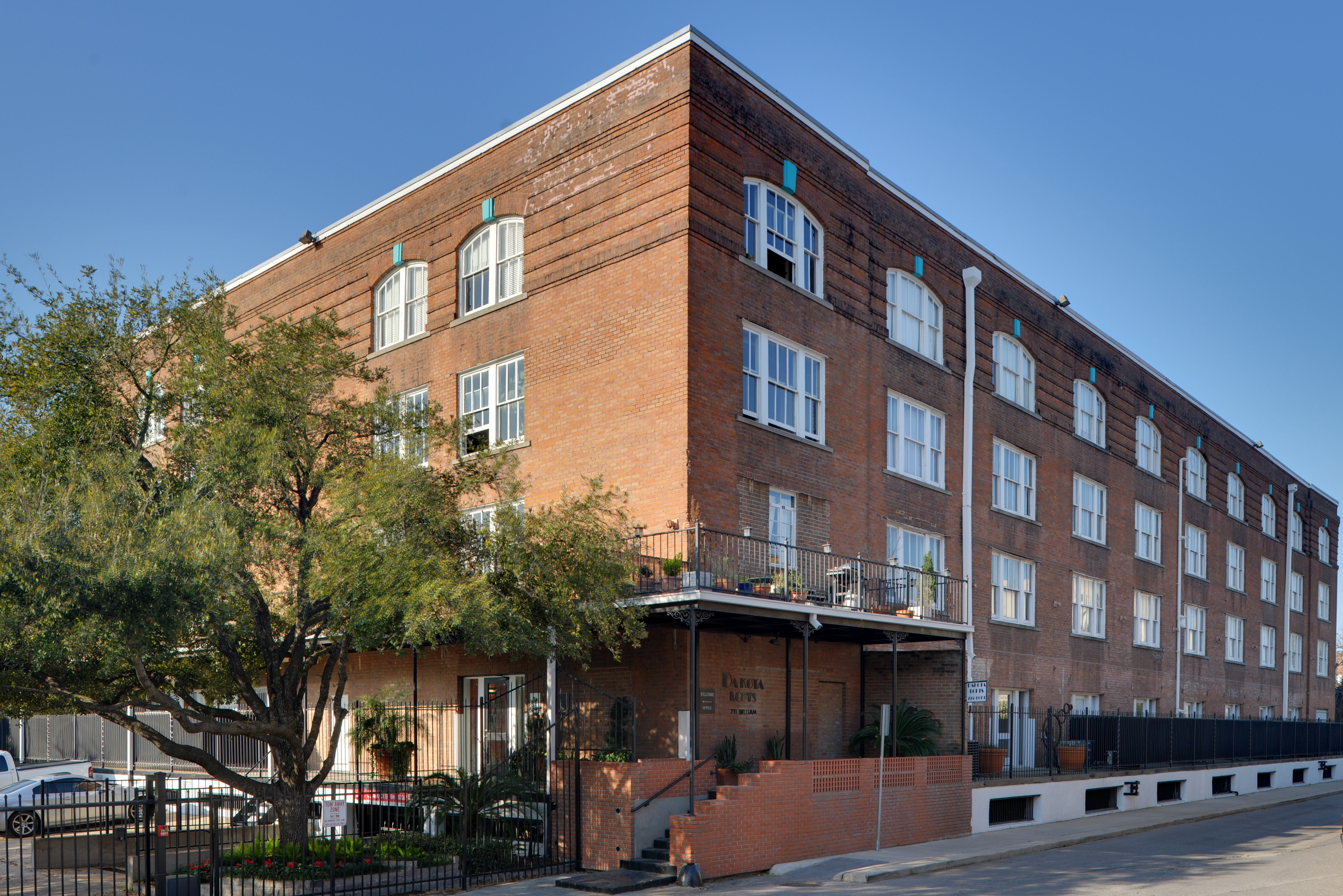 The James Bute Company Warehouse at 711 William St., Houston (Texas, USA) is listed in the National Register of Historic Places, United States Department of the Interior. At the time this picture was taken, it served as the Dakota Lofts apartment building.